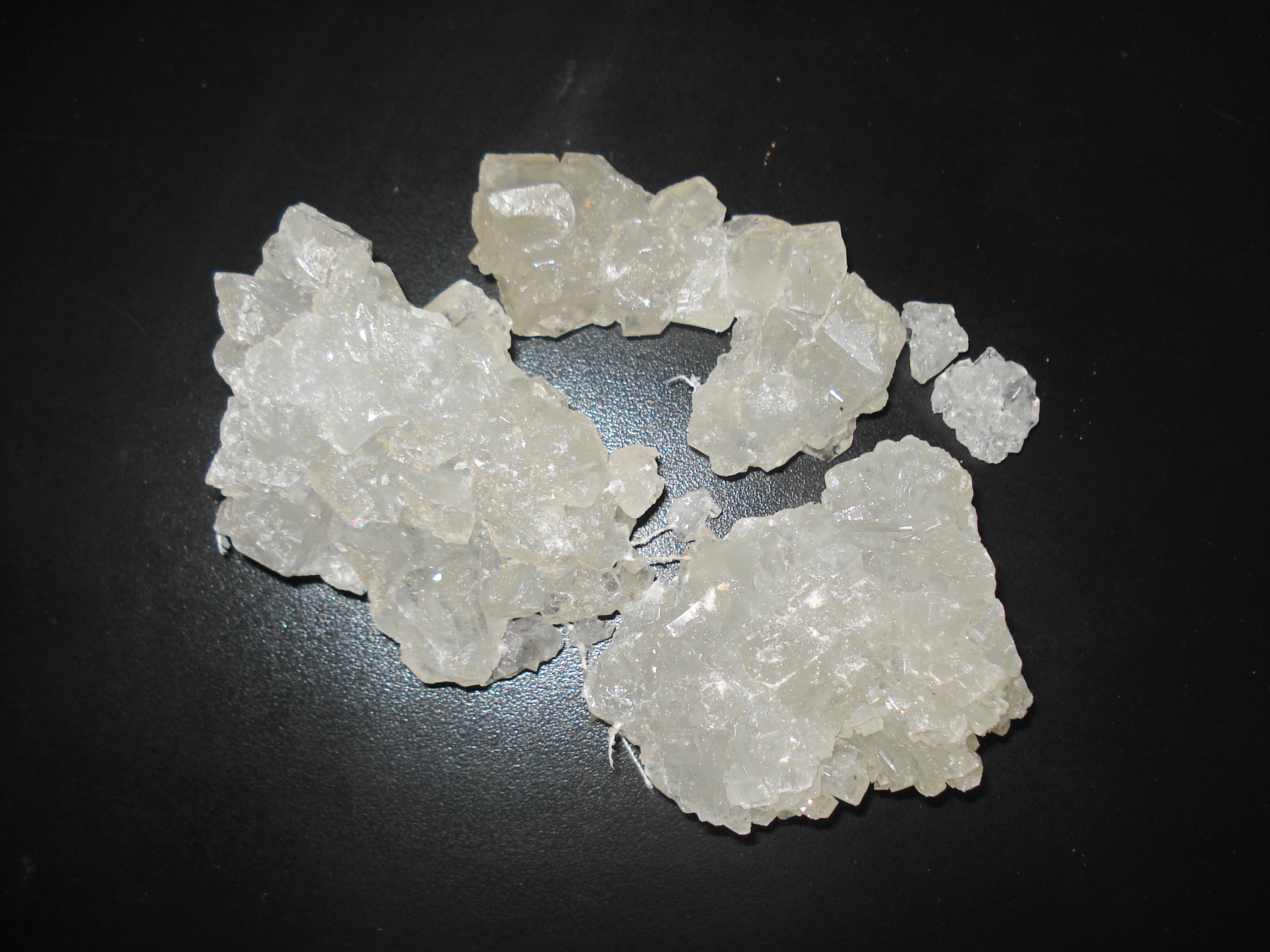 Candy sugar in english